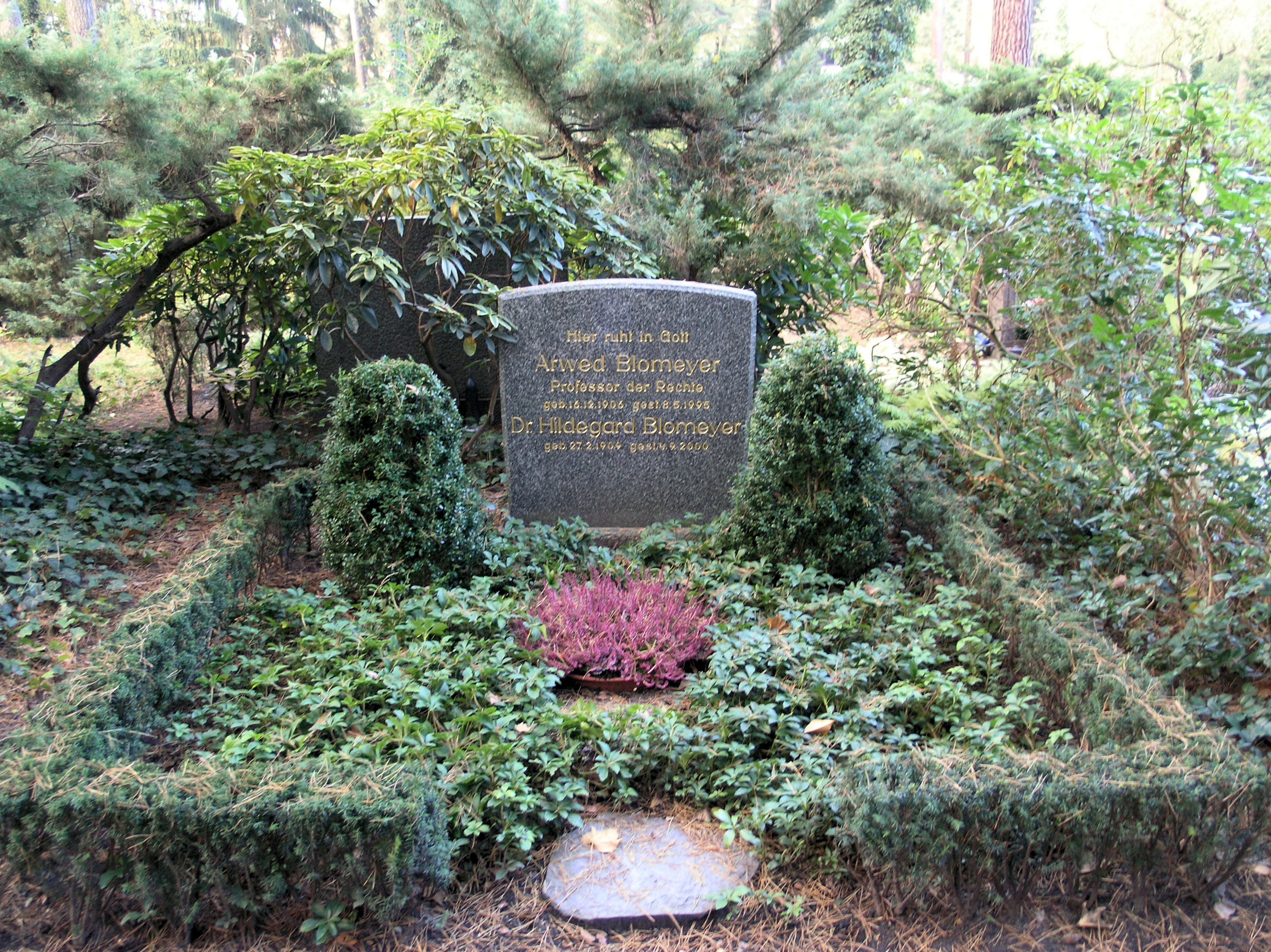 Graves, Arwed Blomeyer, Hüttenweg 47, Berlin-Dahlem, Germany Arwed Blomeyer: Professor des Rechts Koordinate:52°27′20″N 13°15′49″E / 52.45556°N 13.26361°E